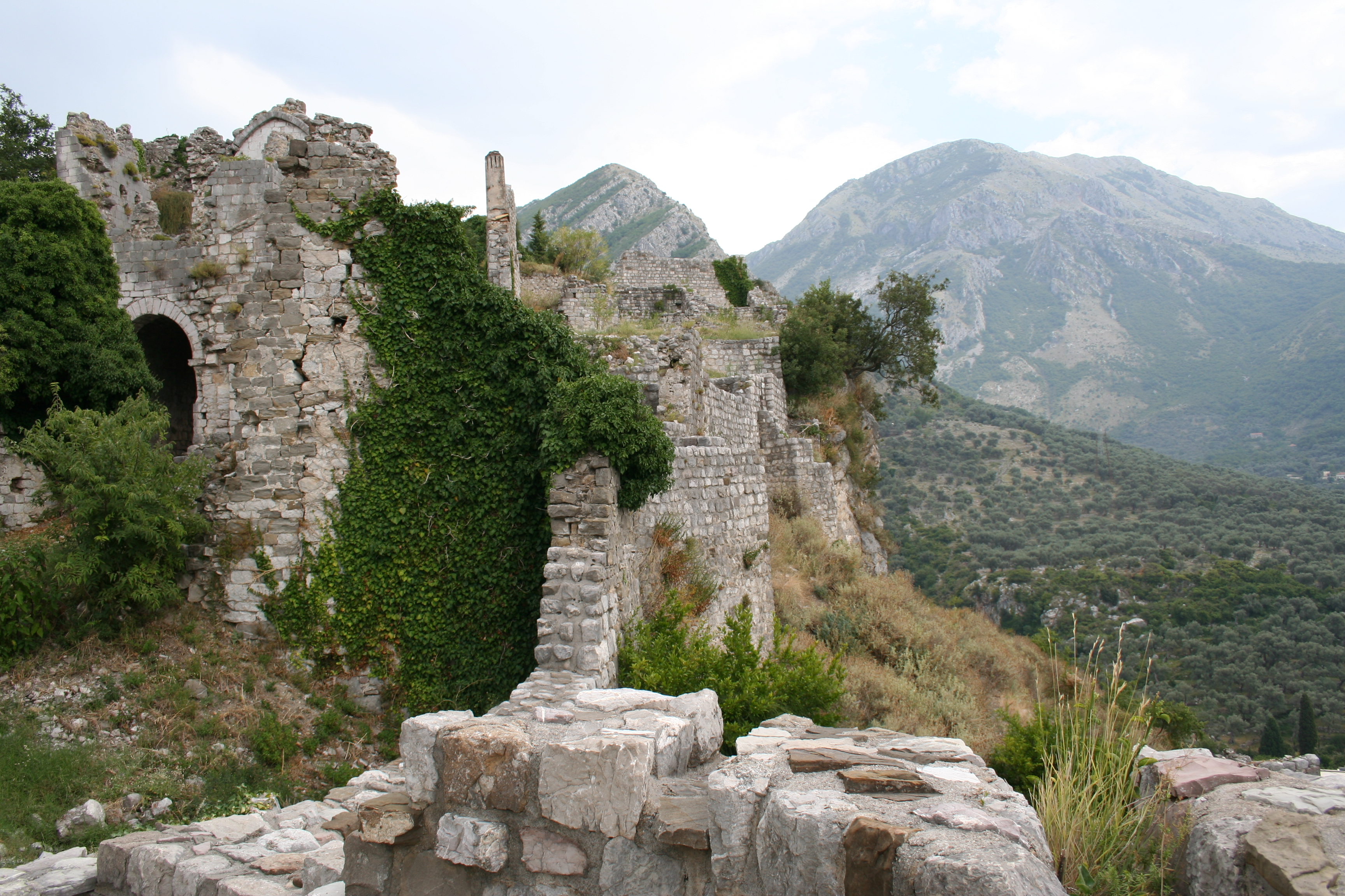 Ruins in the Stari Bar, Montenegro.